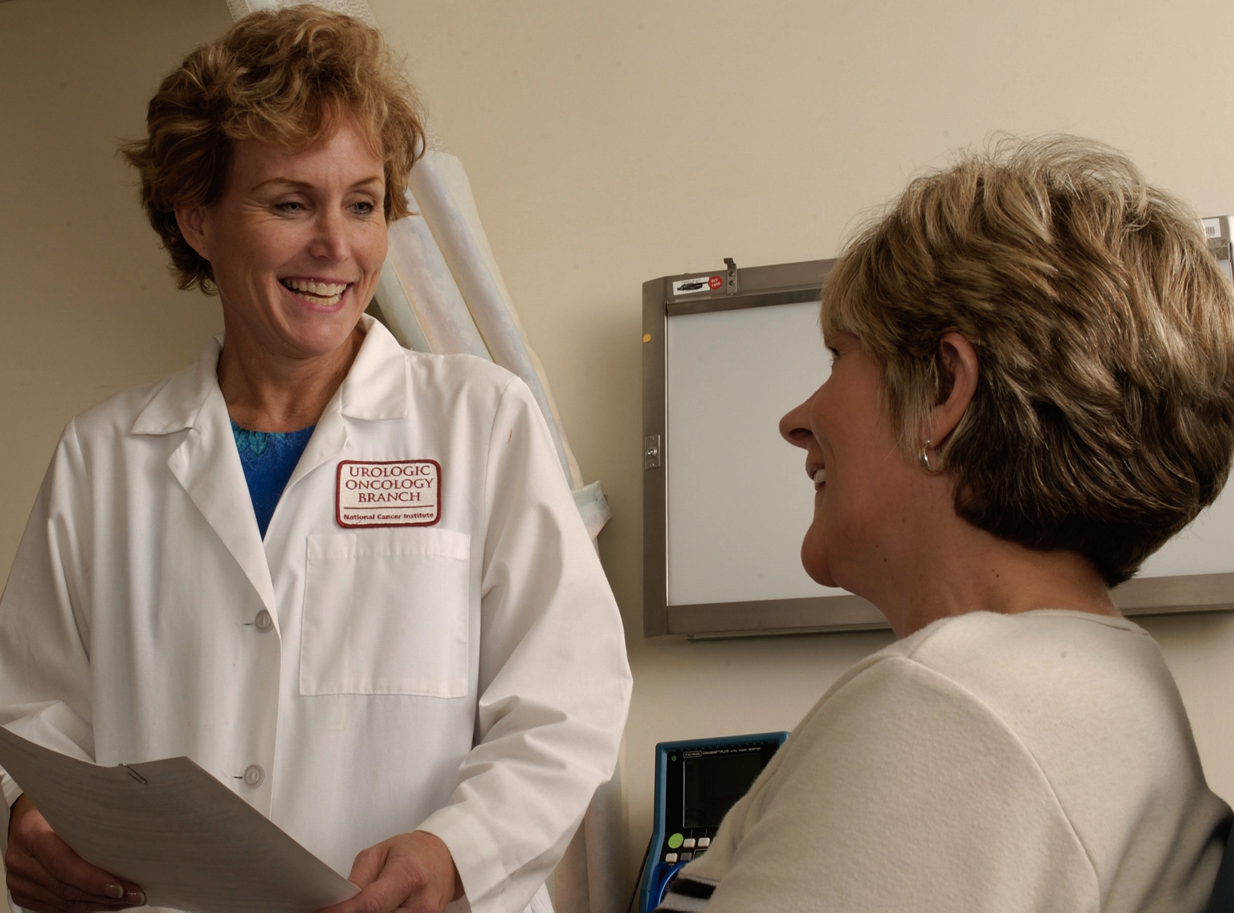 Title Doctor Talking with a Patient Description A female Caucasian doctor is consulting with a female Caucasian patient. Topics/Categories People -- Health Professional and Patient Type Color, Photo Source National Cancer Institute (NCI)